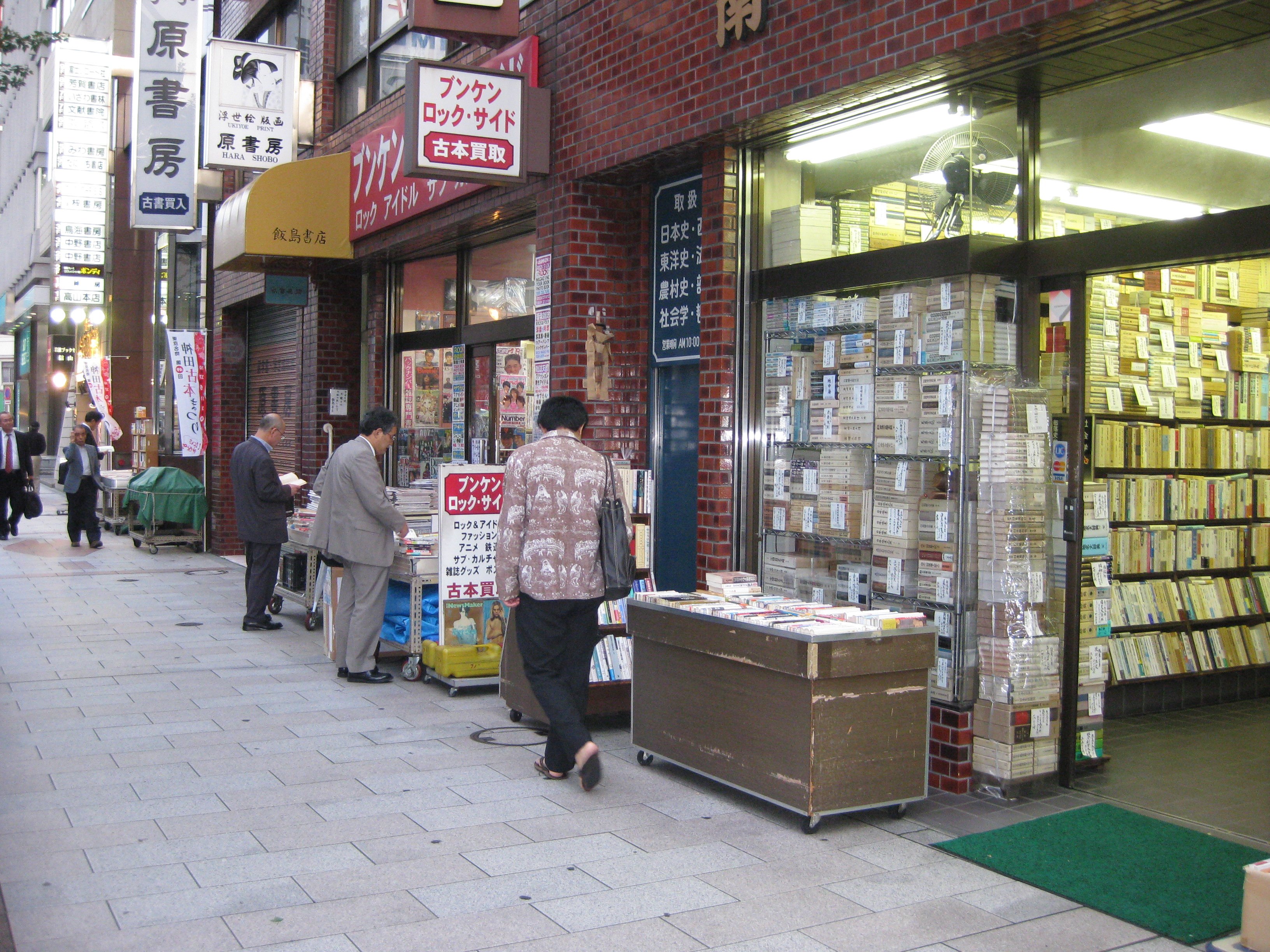 A bookshop in the Kanda-Jimbocho area of Tokyo